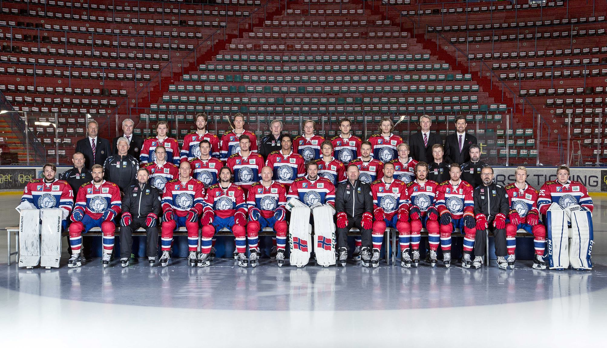 Team photo of the Norwegian national ice hockey team before the Olympic qualifiers in Oslo, Norway in September 2016.